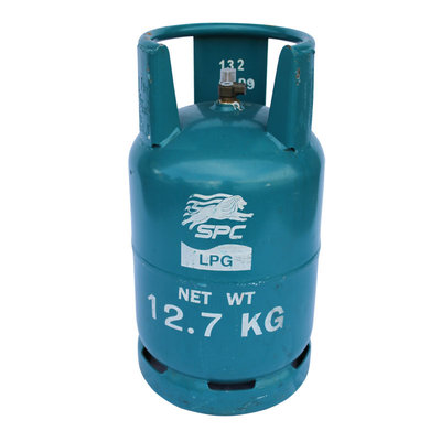 Natural gas for the household